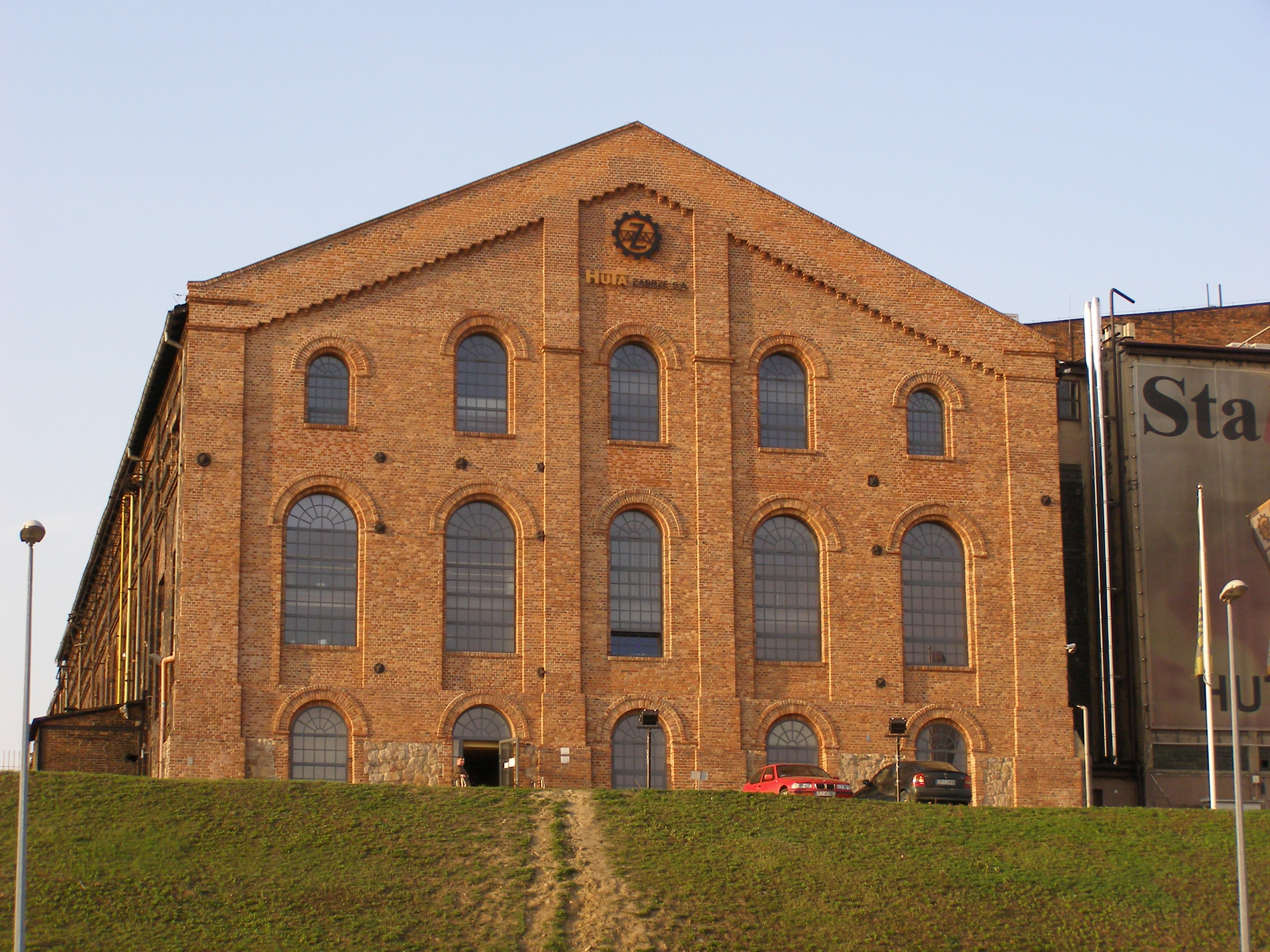 Zabrze - building of blast furnace fans